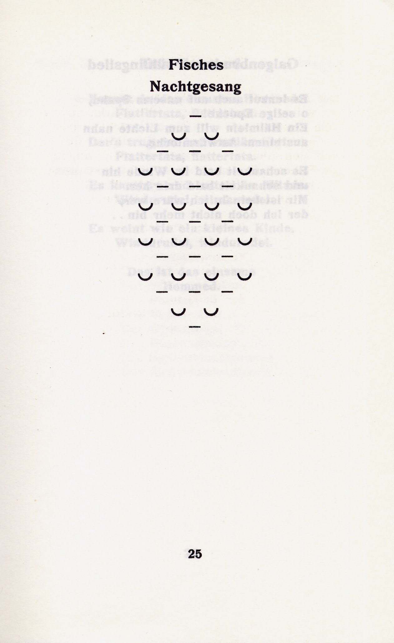 This is a scan of the historical document